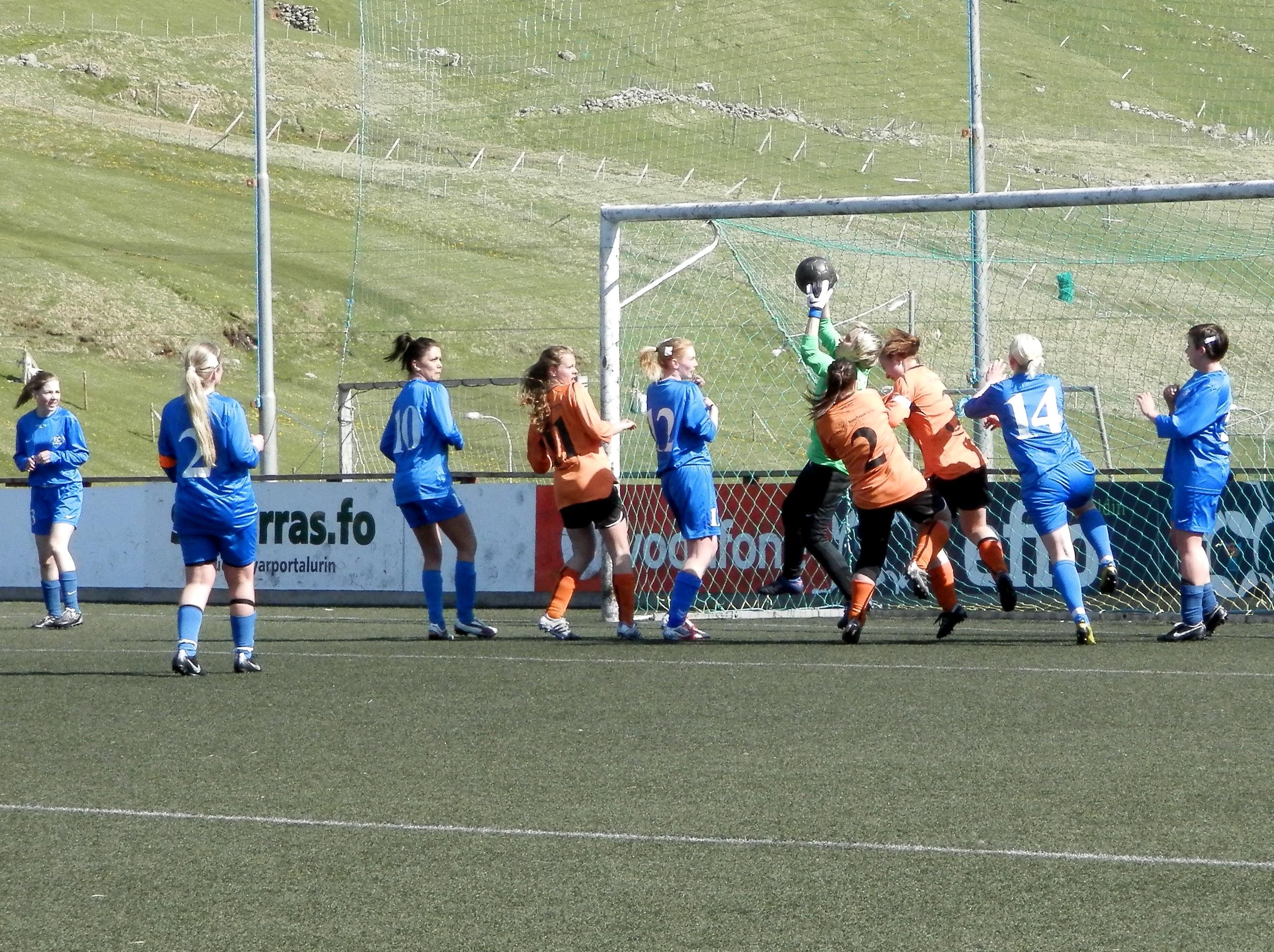 Football match in the women's best division in the Faroe Islands between FC Suðuroy and Skála. Skála won the match 4-1. Føroyskt: Fótbóltsdystur í bestu føroysku kvinnudeildini, 1. deild, millum FC Suðuroy og Skála. Dysturin varð leiktur 28. mai 2012 í Vági. Skála vann dystin 4-1.